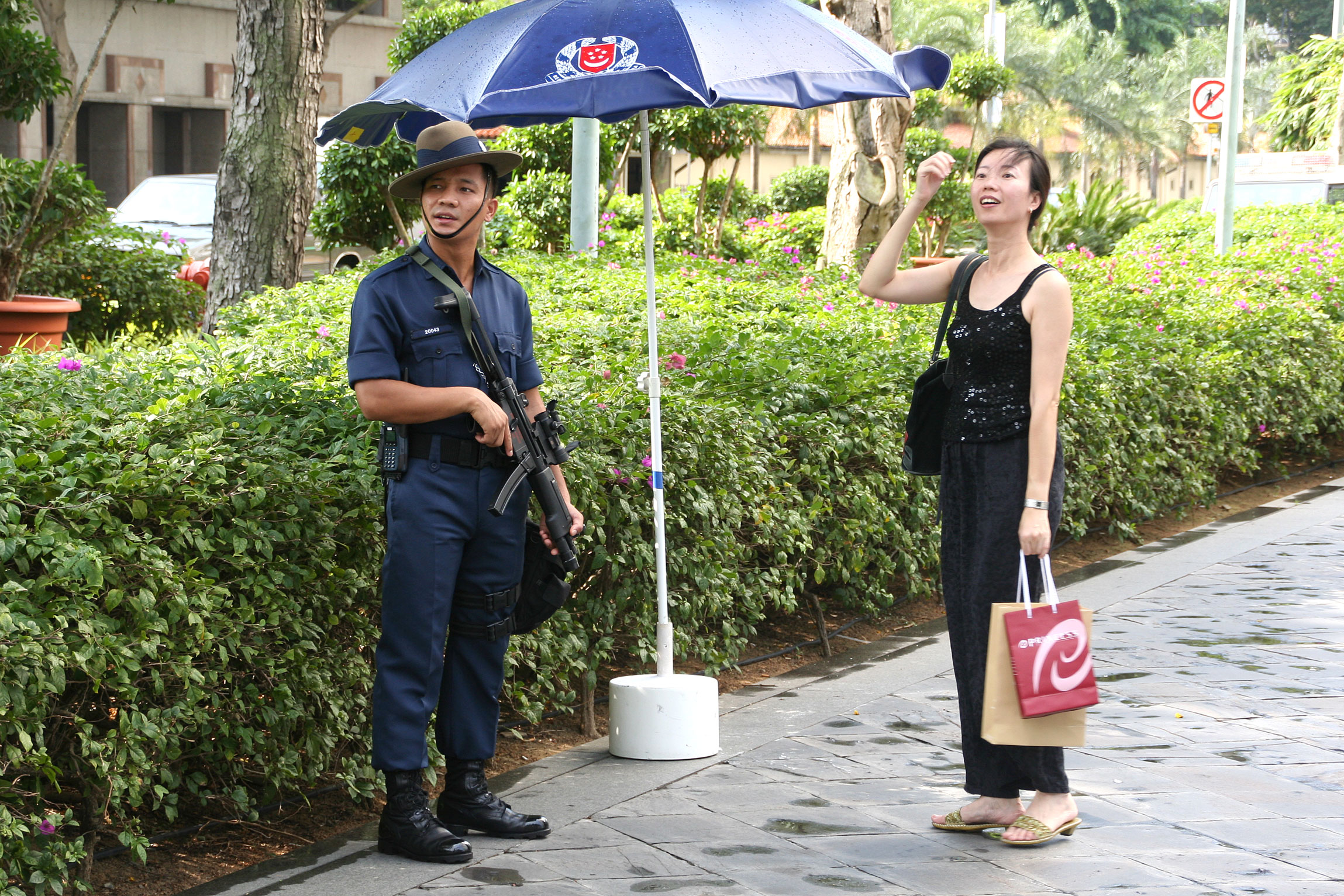 Description: A Gurkha trooper at Raffles City during the 117th IOC Session giving directions to a member of the public. Source: Self-made Location: Raffles City, Singapore Date: 03/07/2005 16:31 Photographer/Painter: Huaiwei